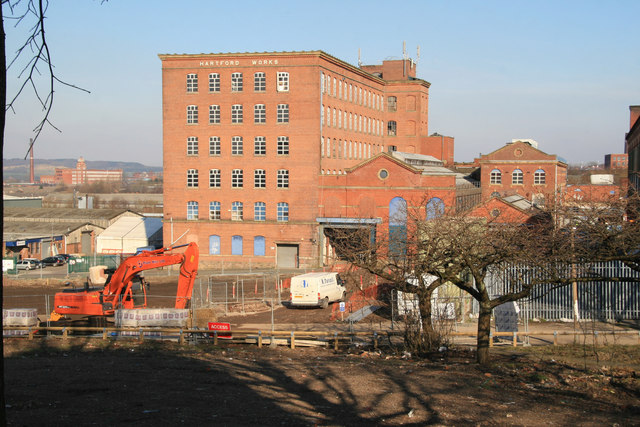 Hartford Works, Werneth This is the new works of Platt Brothers & Co, established in 1842. Platts were major builders of the textile machinery that so much of Lancashire depended on and this was a large site. The office block has been illustrated by others but this floats my boat a bit more. In the left background you can see Manor mill, Chadderton. This was equipped by the rival firm of Asa Lees. My advice to budding industrial photographers is to get snapping and be snappy about it.